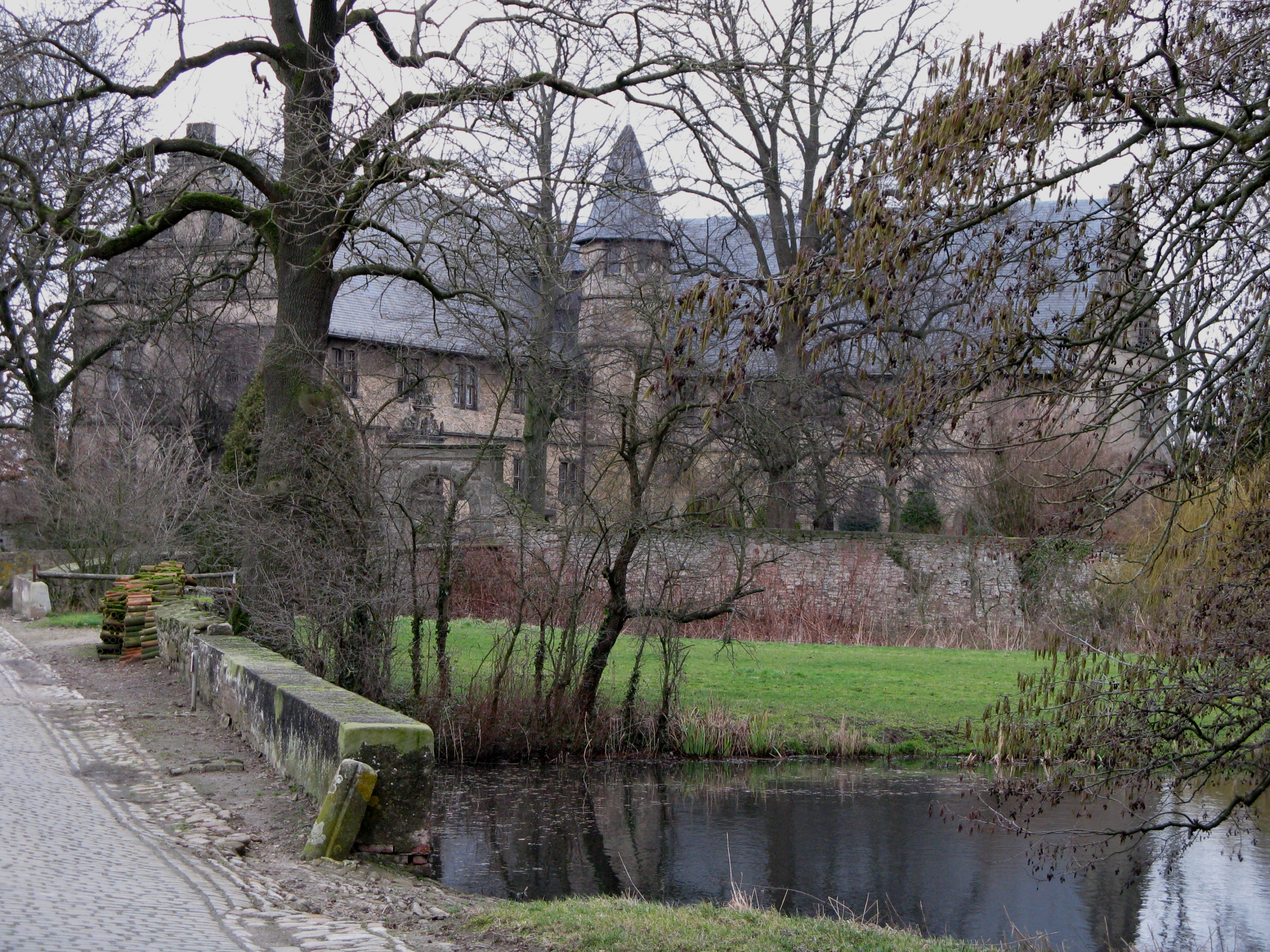 This image shows a heritage building in Germany, located in the North Rhine-Westphalian city Minden (no. 249).